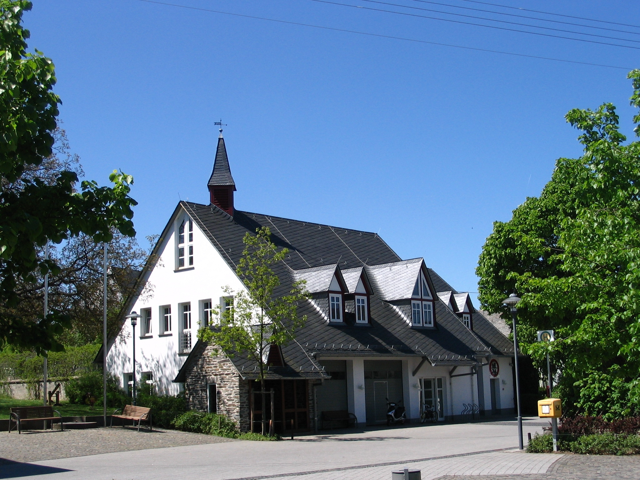 center of village Dommershausen in the Hunsrück landscape, Germany